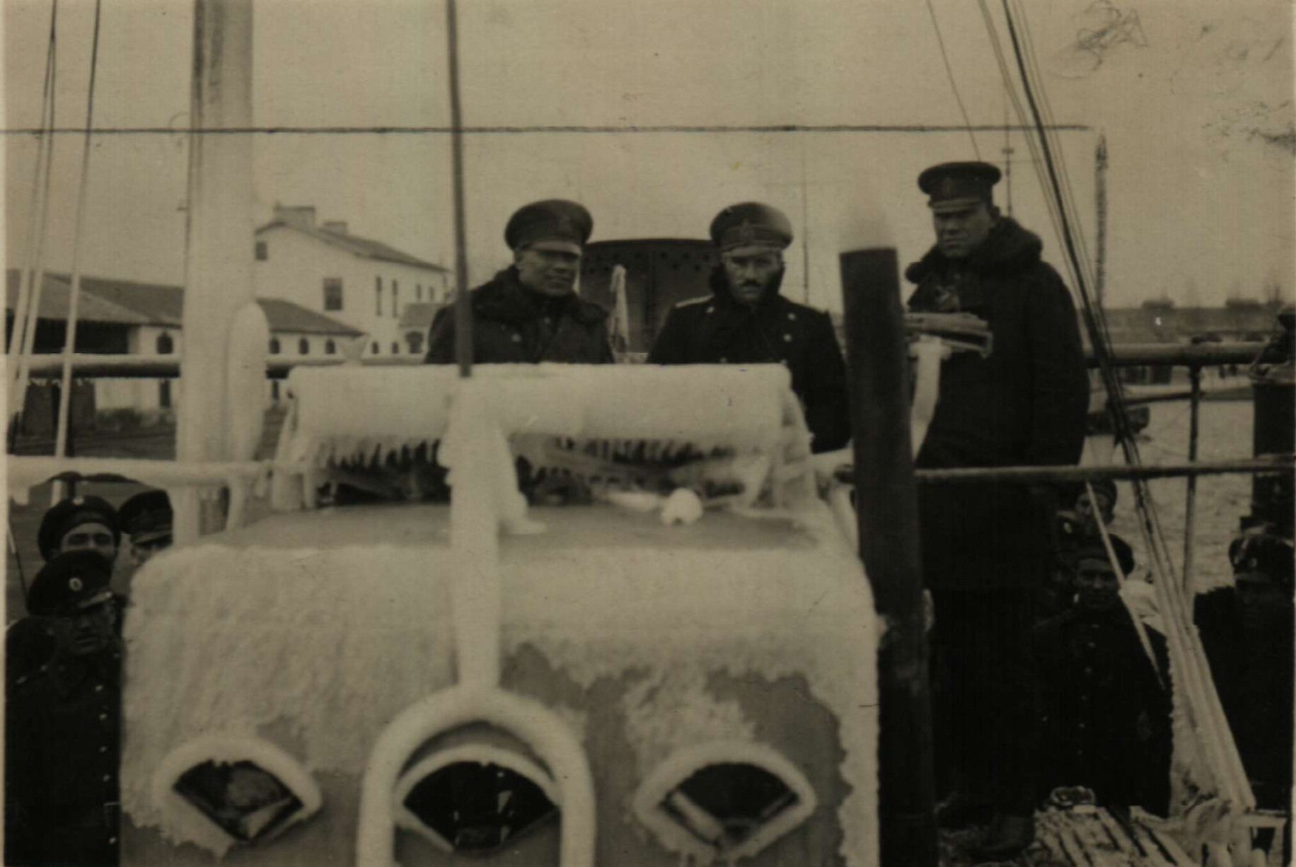 Conning tower of a torpedo boat of Drazki class